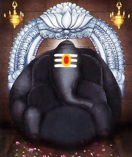 Sri Swayambu Varasidhi Vinayakaswamy